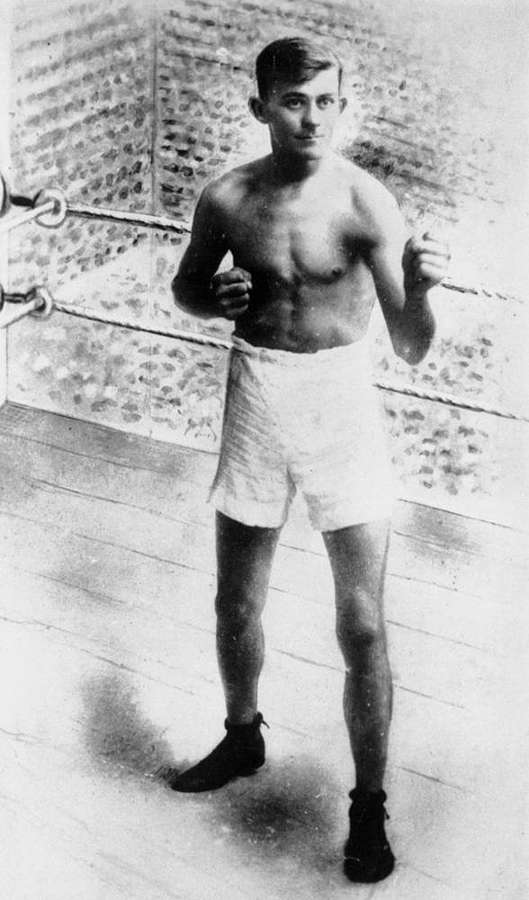 Archie Bradley, Lightweight boxer from Gympie.